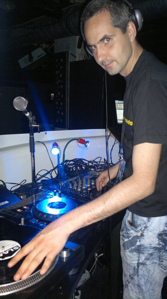 Dj Emsci (Miklos Tobias) disc-jockey